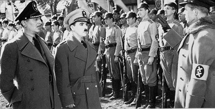 Charlie Chaplin from the end of film The Great Dictator